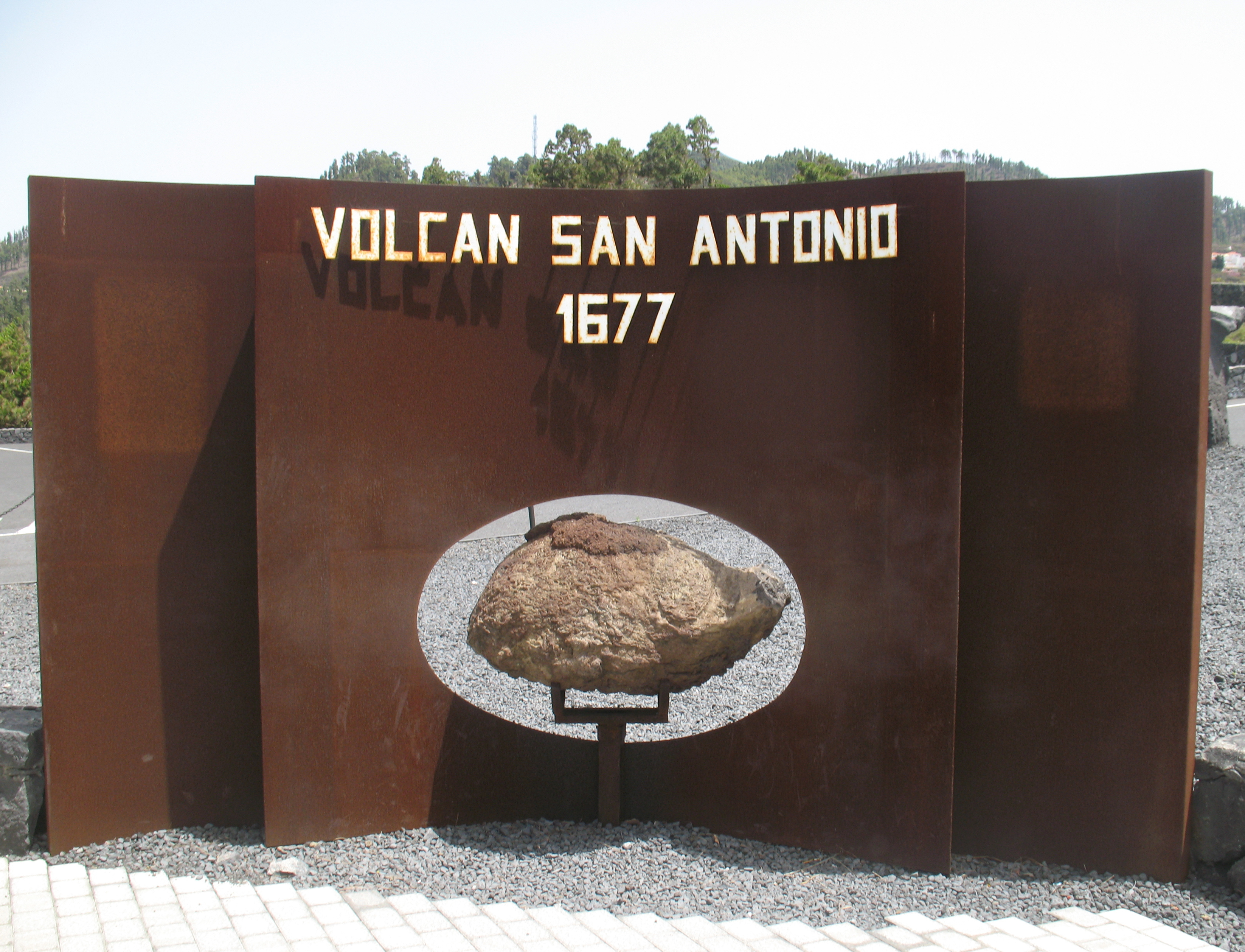 Sign in the visitor center of the volcano San Antonio on the canary island of La Palma